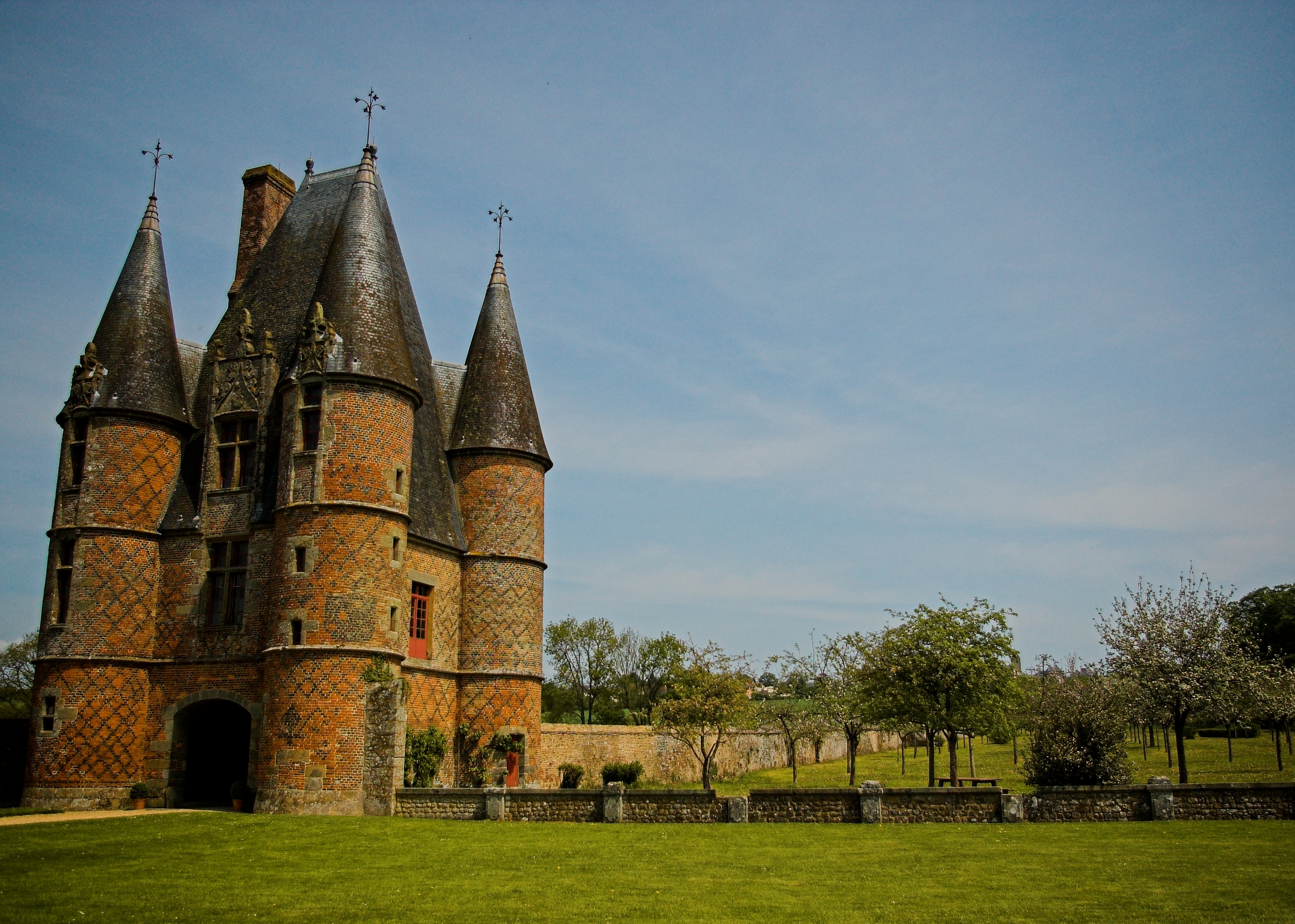 Carrouges castle (14th-17th century), Normandy, France.